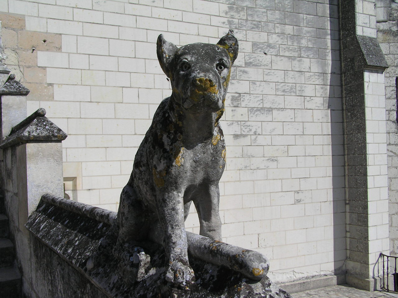 Castle of Loches, dog statue at the portal of the Logis Royal